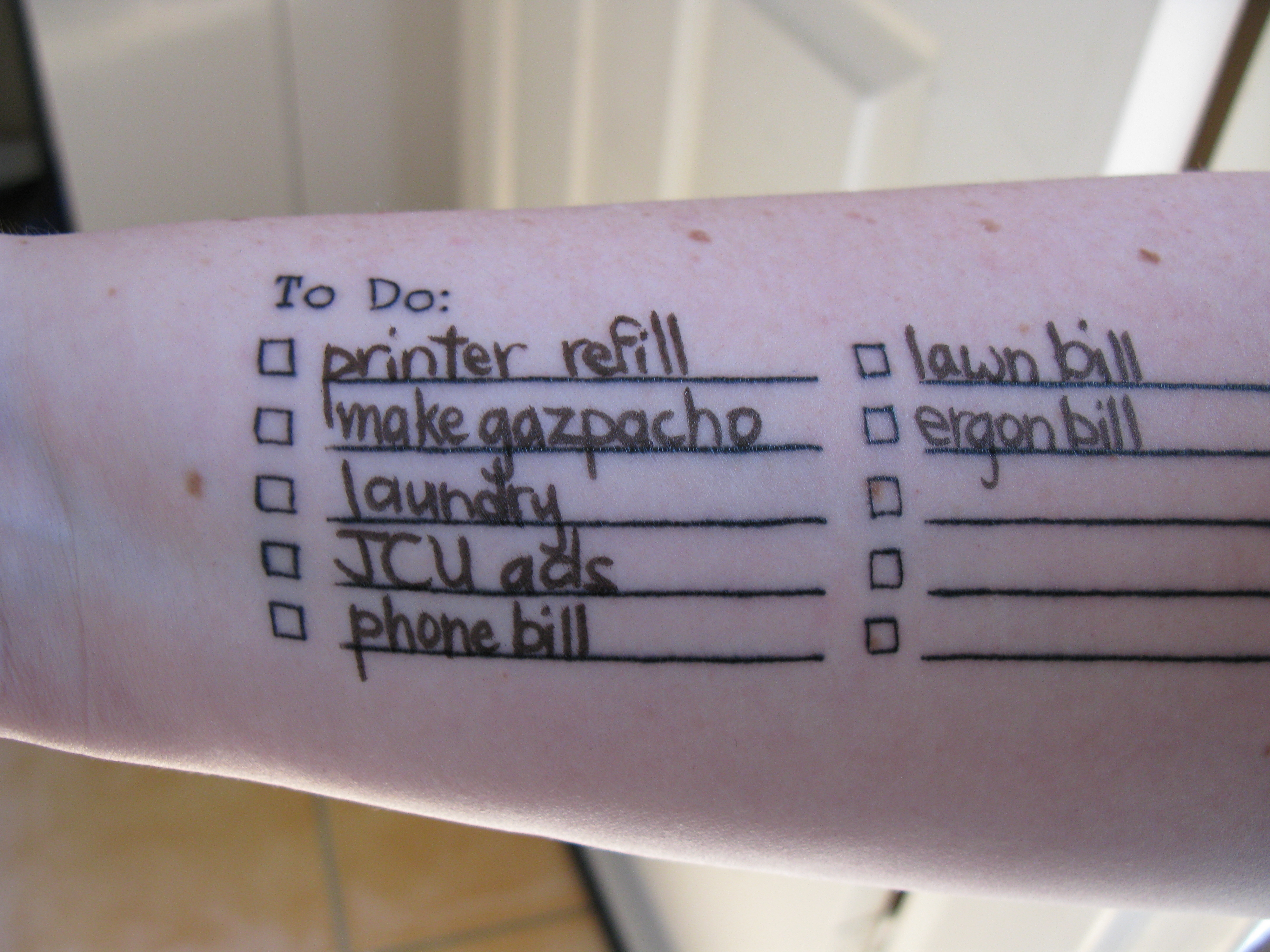 Tattooed by the awesome and wonderful Lelia at The Needle's Kiss in Townsville ( on 18/5/2010 as an anniversary gift from Rob (because I'd been talking about having it done for 2 years).